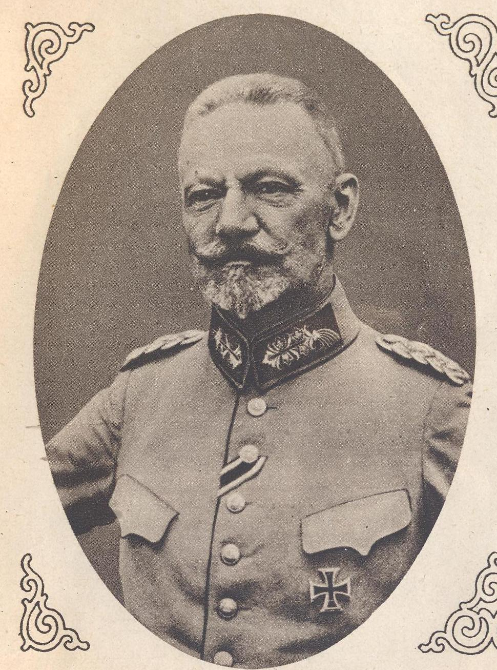 Max von Gallwitz. Rudolf Mosse, "Album de la Grande Guerre" №10, 1915. General of the Artillery von Gallwitz, leader of the 5th German Eastern Army during the World War and bearer of the Order of the Black Eagle. Latest picture of General von Gallwitz who led the German troops to a breakthrough at Przasnysz on 13 July. taken on 13.7.15 at 9 am. A. Kühlewindt, court photographer, Königsberg Prussia.